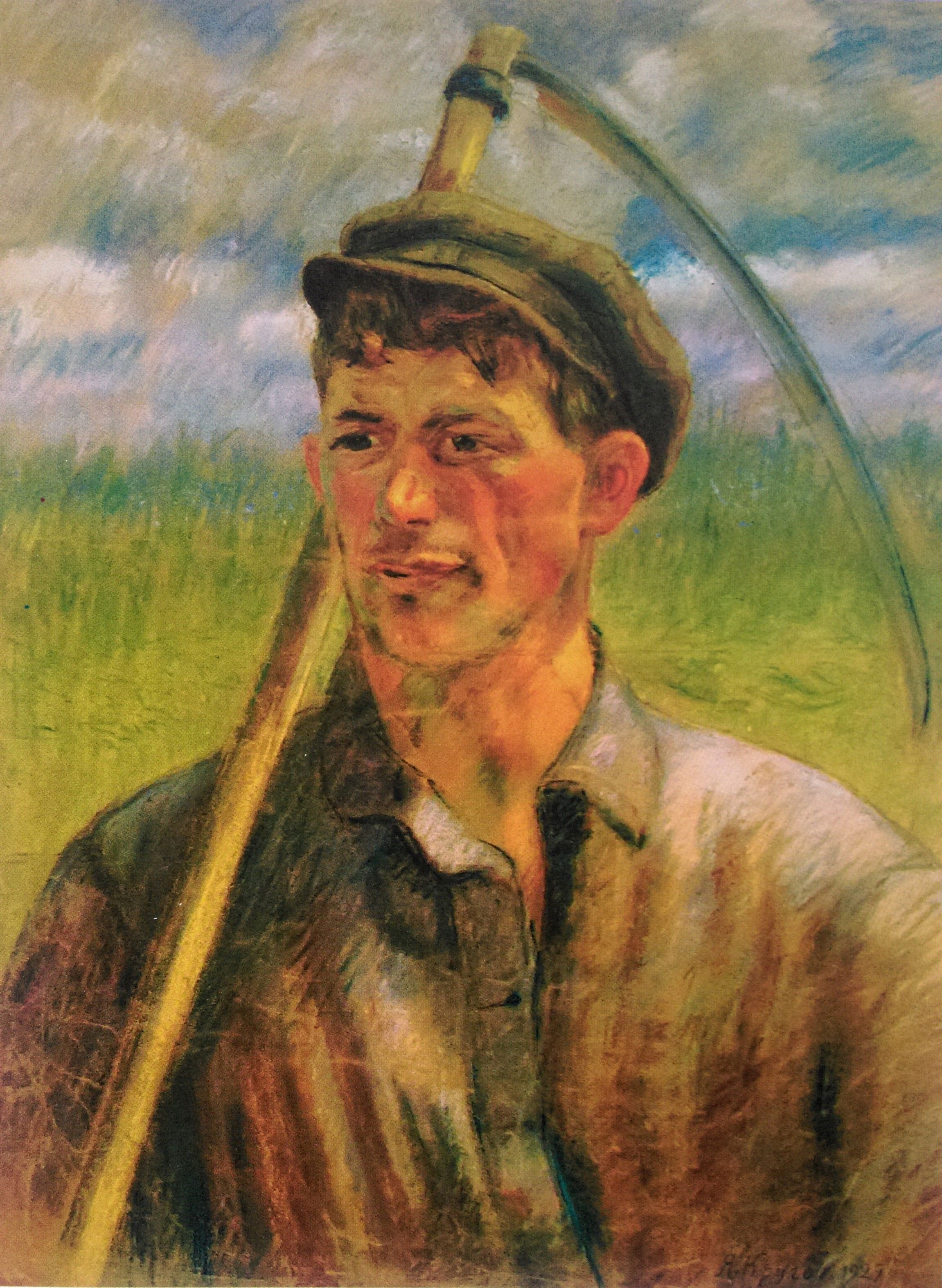 Jacob Kruger "Mower", 1929. Colored paper and pastel. National Art Museum of Belarus.